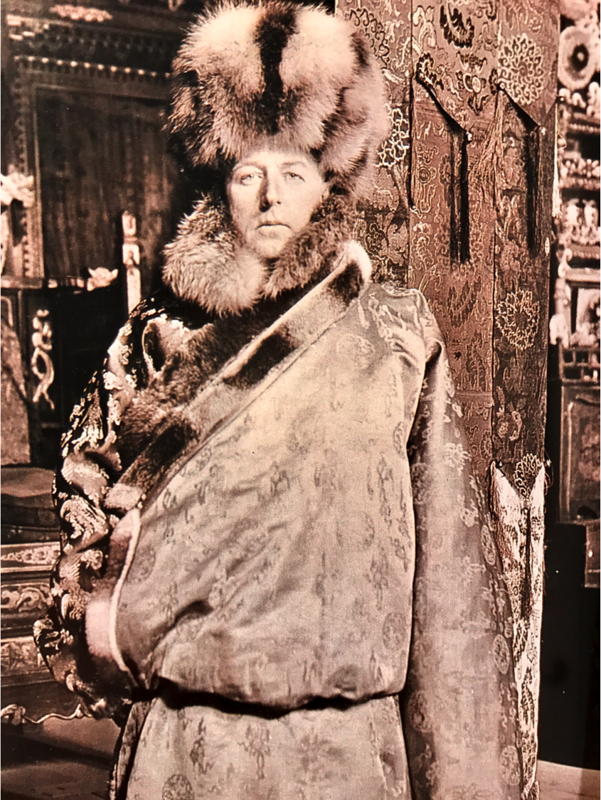 Rock in a tibetan outfit in Yunnan, China